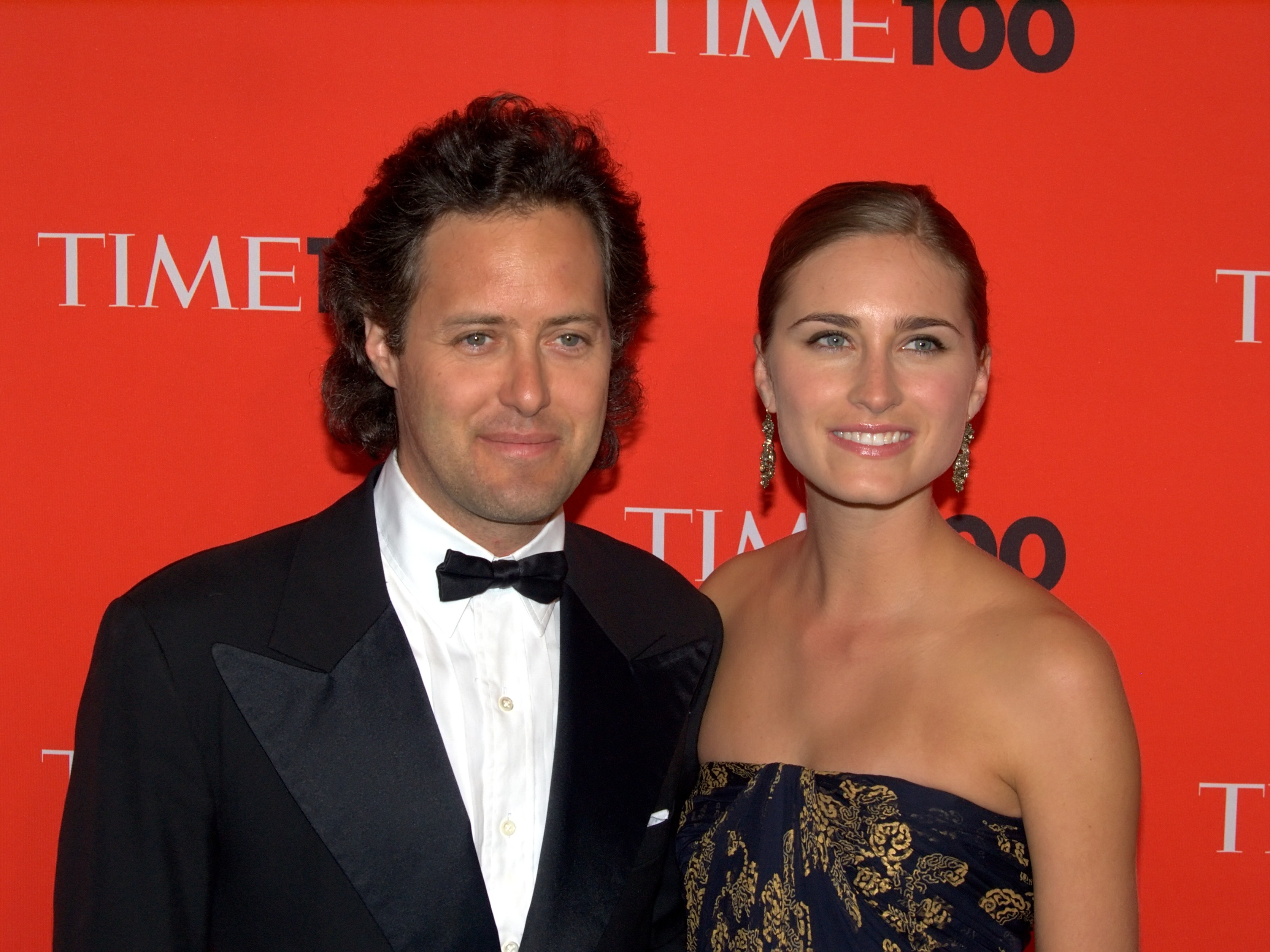 David Lauren and Lauren Bush at the 2010 Time 100.